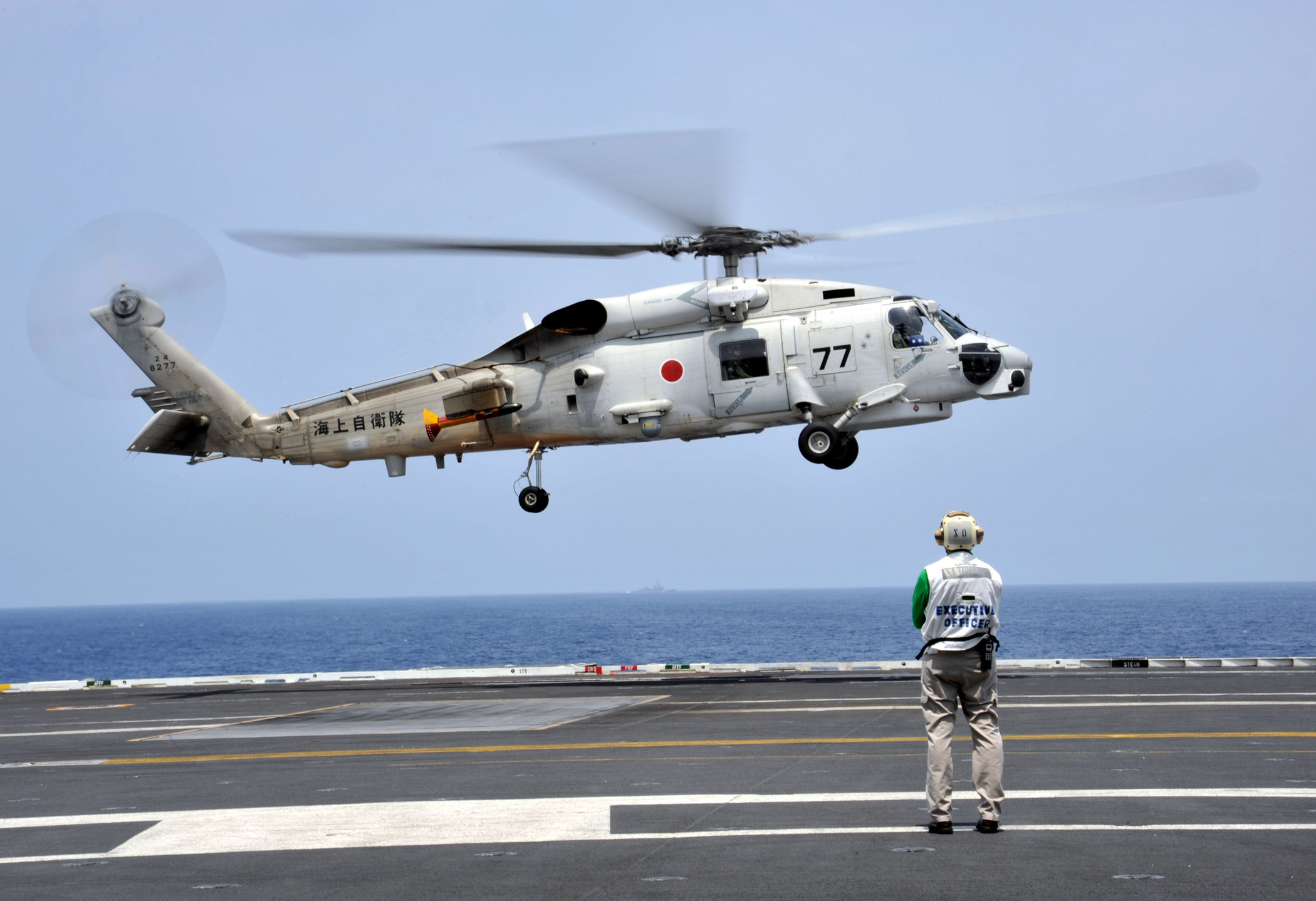 EAST CHINA SEA (Jun. 22, 2012) - Capt. Kenneth Reynard, the executive officer of USS George Washington (CVN 73), awaits the arrival of members of the Japanese Maritime Self-Defense Force (JMSDF) on the flight deck during a trilateral exercise with the JMSDF and the Republic of Korea navy. The trilateral exercise included integrated helicopter operations, visit, board, search and seizure (VBSS) exchanges, communication links, dynamic ship maneuvers and liaison officer exchanges. (U.S. Navy photo by Mass Communication Specialist Seaman Apprentice Brian H. Abel) Nikon D700